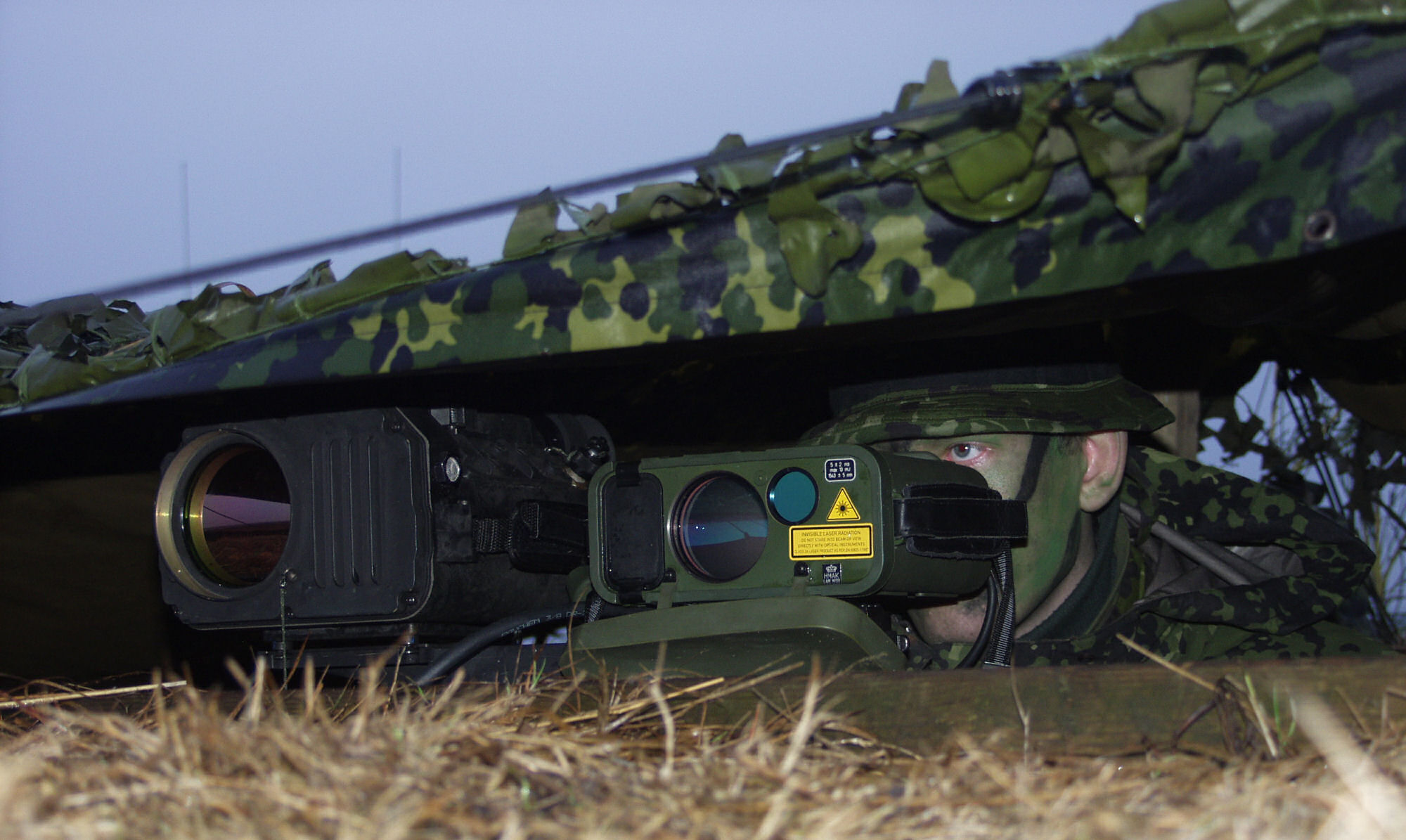 A Danish artillery observer using a thermal camera and a laser rangefinder on a live fire exercize in Oksbøl.